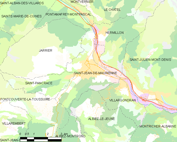 Map of French municipality